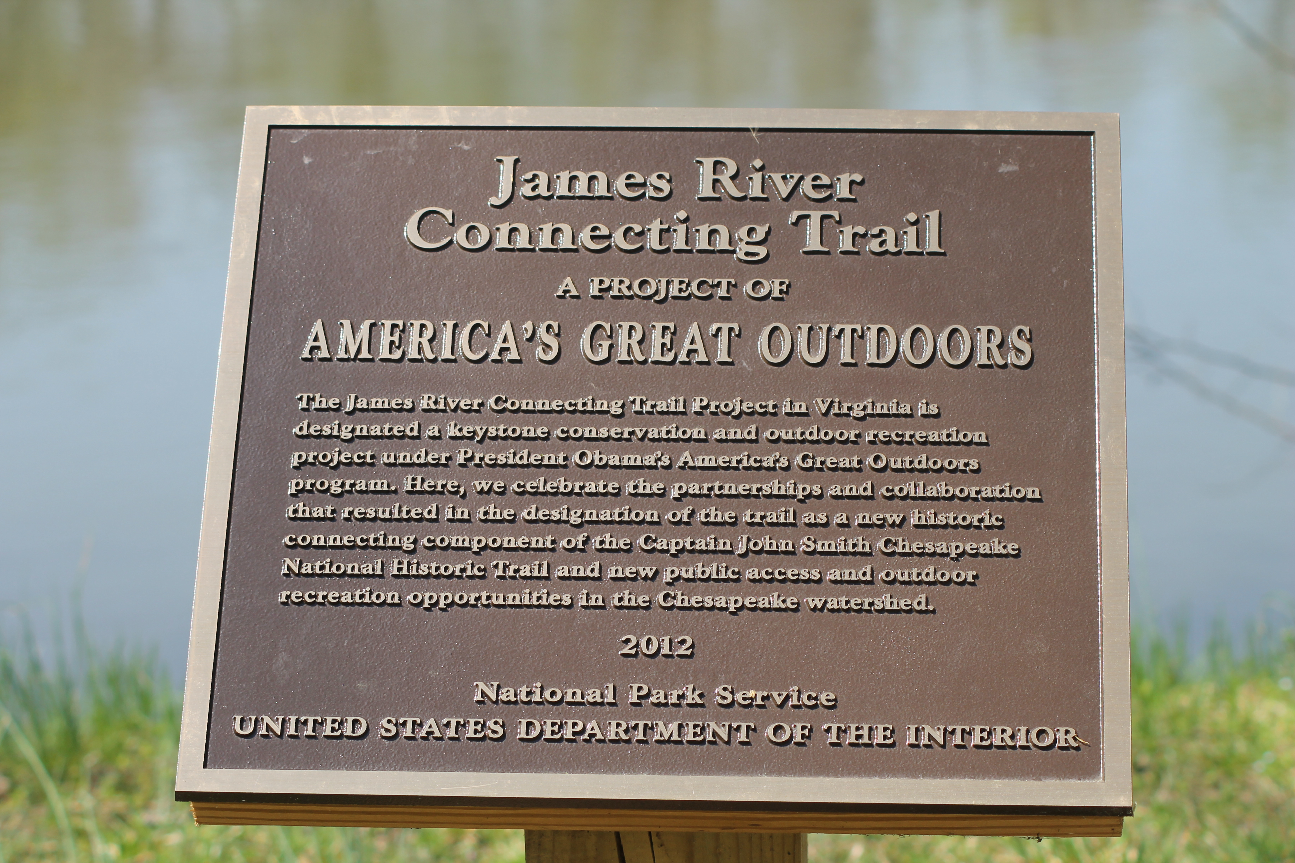 Powhatan James River Connecting Trail